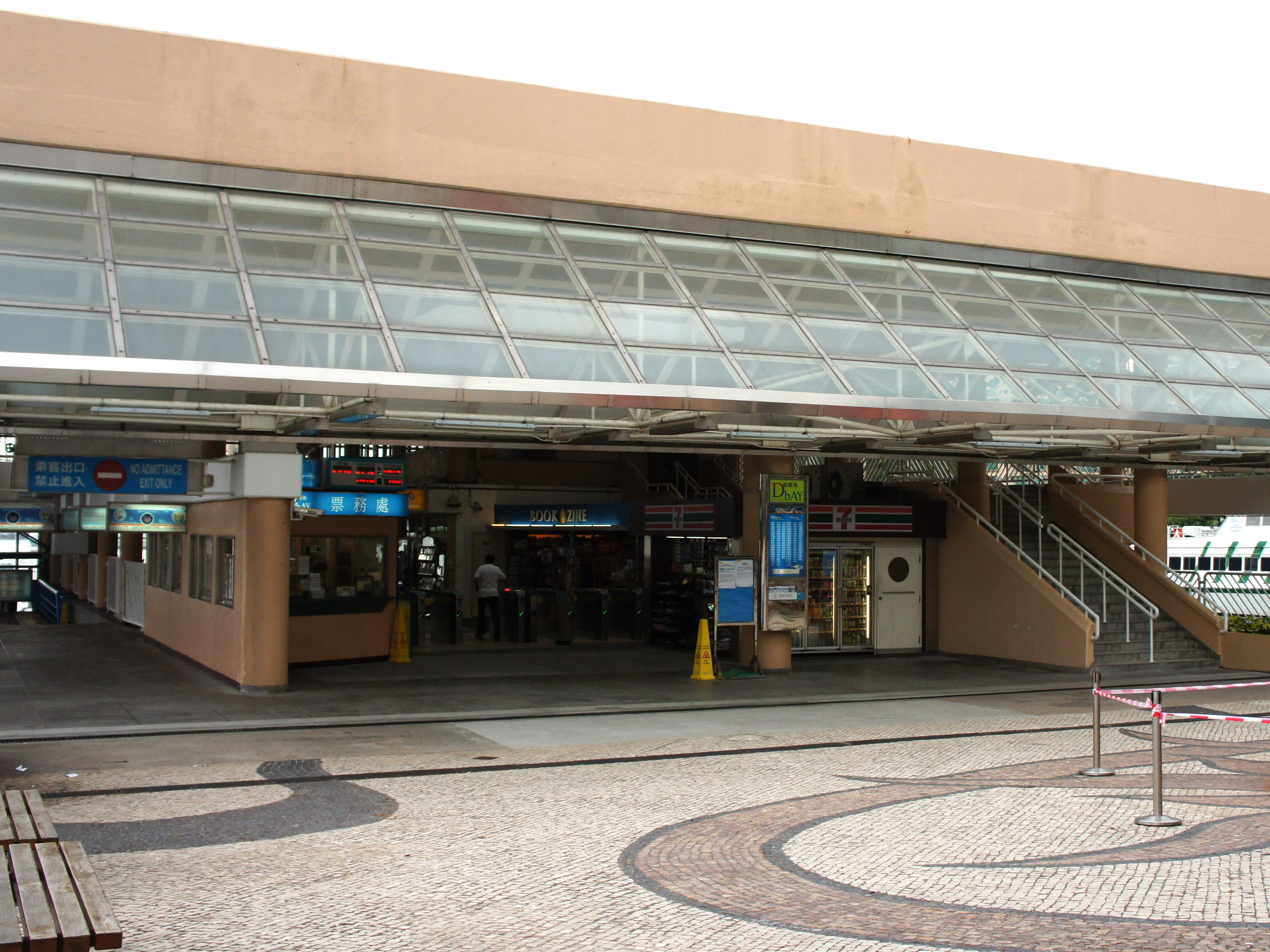 Entrance of the Discovery Bay Ferry Pier, Discovery Bay, Lantau Island, Hong Kong.